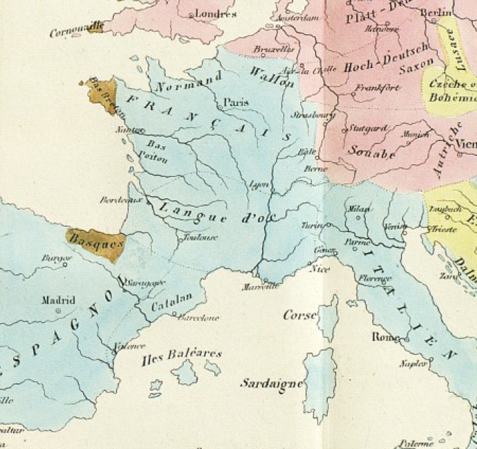 an extracted map of European languages. partial capture from numbered version of M. d'Argenson, "Des nationalités européennes", Paris, 1859